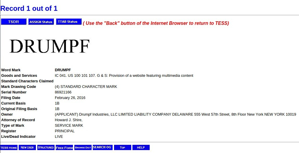 Drumpf trademark search result at United States Patent and Trademark Office website ( yielding only one result for trademark Drumpf: Word Mark DRUMPF Goods and Services IC 041. US 100 101 107. G & S: Provision of a website featuring multimedia content Standard Characters Claimed Mark Drawing Code (4) STANDARD CHARACTER MARK Serial Number 86921166 Filing Date February 26, 2016 Current Basis 1B Original Filing Basis 1B Owner (APPLICANT) Drumpf Industries, LLC LIMITED LIABILITY COMPANY DELAWARE 555 West 57th Street, 8th Floor New York NEW YORK 10019 Attorney of Record Howard J. Shire, Type of Mark SERVICE MARK Register PRINCIPAL Live/Dead Indicator LIVE